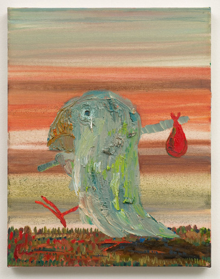 Nicole Eisenman, Foghorn Hits the Road, 2007, Oil on canvas, 14" x 10_¾